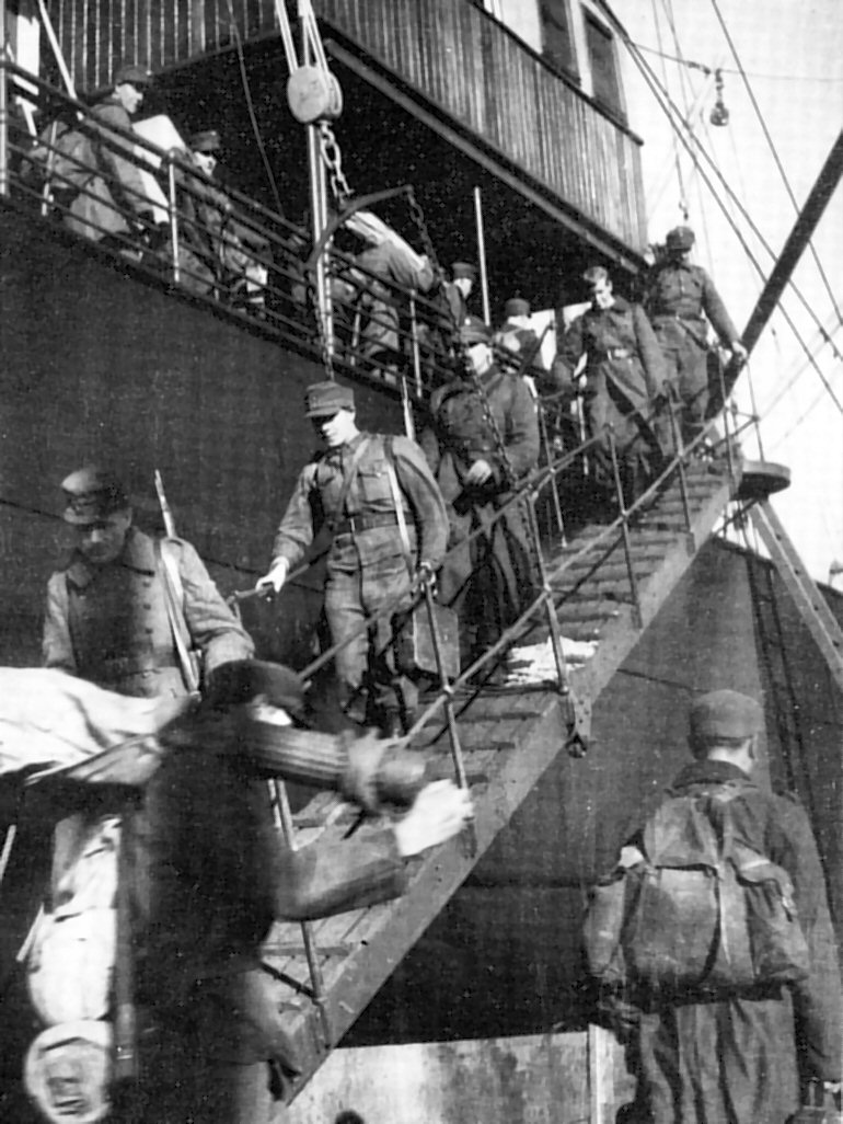 Finnish troops landing on Tornio Röyttä harbour during Lapland War 1944 in Finland